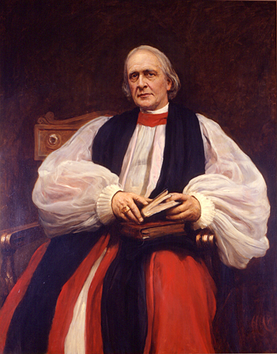 Portrait of Edward White Benson (1829-1896), Archbishop of Canterbury